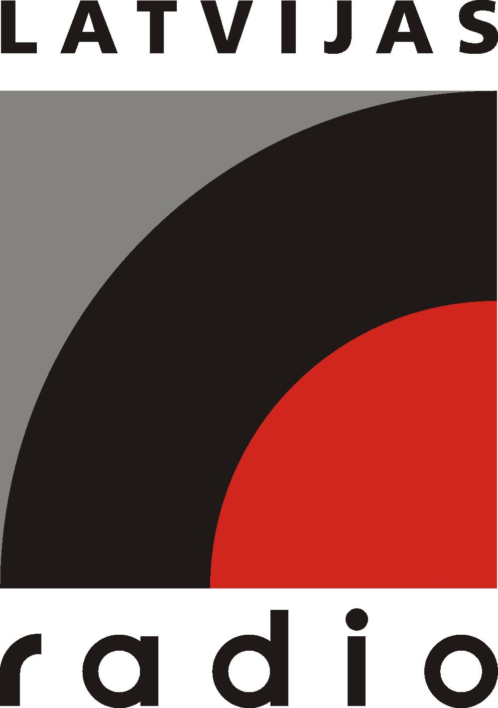 Latvijas Radio logotips (-2015)